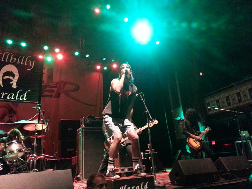 Band: Hillbilly Herald Venue: The Tabernacle (Atlanta, GA) Date: April 14, 2013